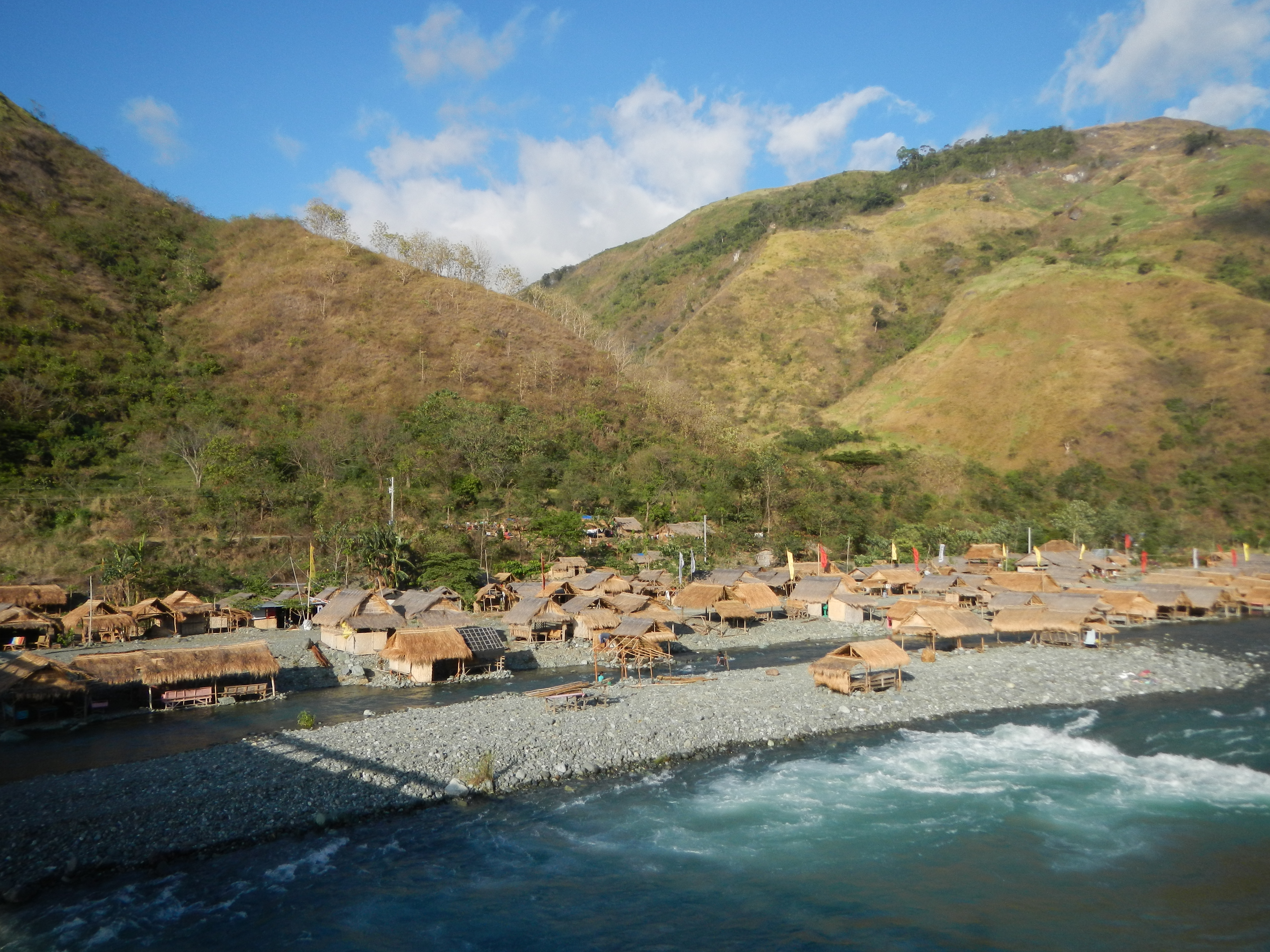 Dupinga River and Dupinga Bridge[1]Latitude. 15.5016667°, Longitude. 121.2769444° [2] local talangka (river crab) are abundant in the river[3] Brgy. Dupinga, Gabaldon, Nueva Ecija[4] (formerly Sabani and Bitulok) is a fourth class municipality in the province of Nueva Ecija, Philippines.[5] [6] GPS Coordinates: 15.505875,121.325111 / Click to view location on Google Maps [7][8]Type: stream Categorized as: Stream, Lake[9] (190 meters long Dupinga Bridge)[10]15° 30′ 11.00″ N 121° 19′ 19.00″ E:: There are seven (7) tourist spots found in the Municipality of Gabaldon: the Dupinga Water Reservoir, located at the bottom of the Dupinga Bridge, the famous Sierra Madre Mountains, a haven for adventure and nature-loving people; xxx.[11]